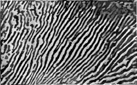 Photomicrograph of steel